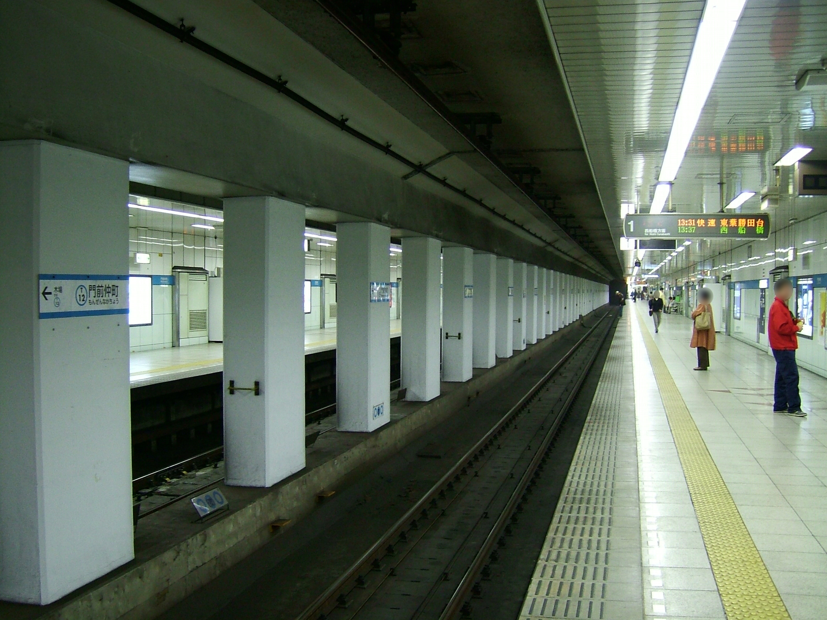 The platforms at Monzen-Nakachō Station on the Tokyo Metro Tōzai Line in Kōtō city, Tokyo, Japan